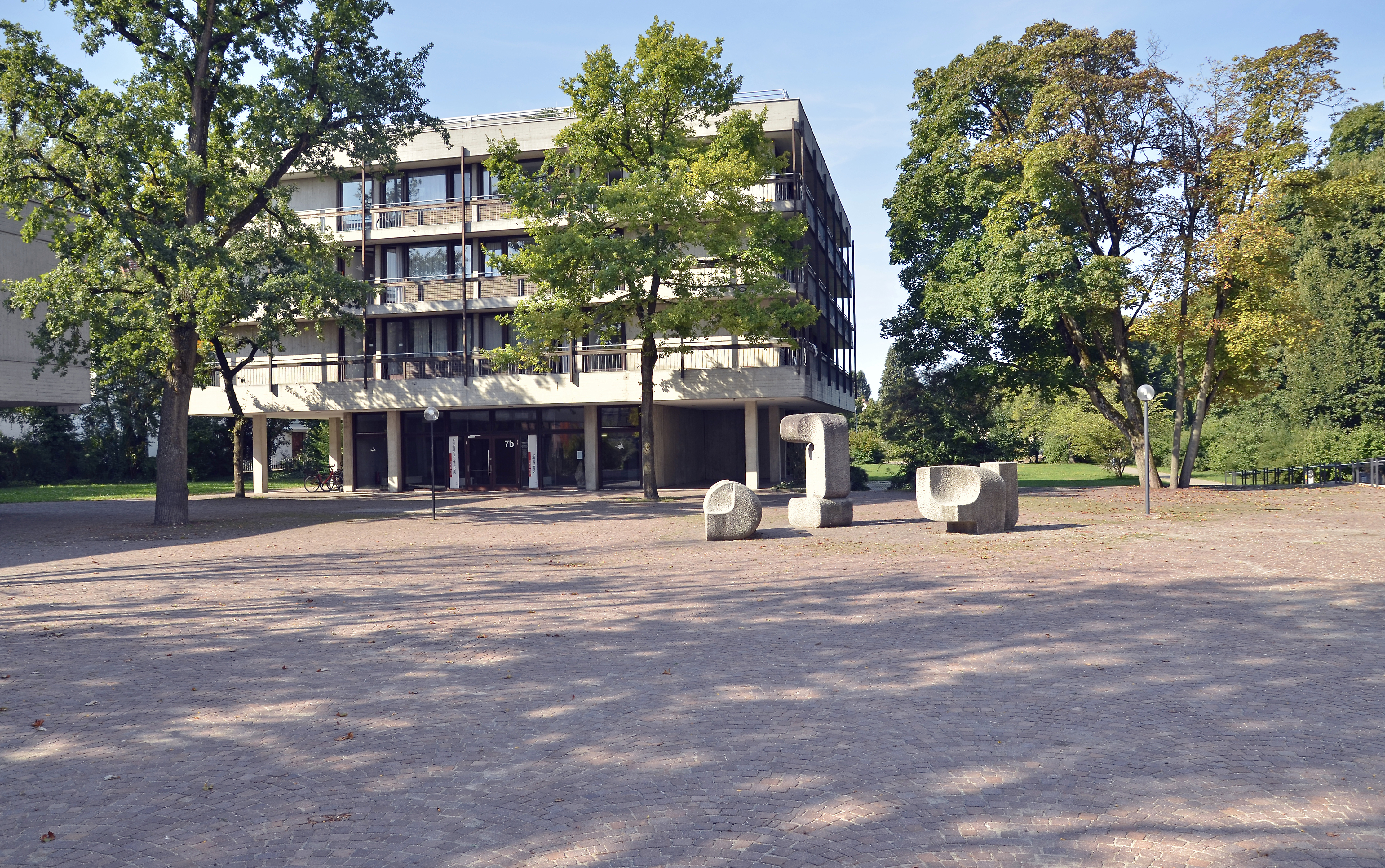 Students residence in Dachau